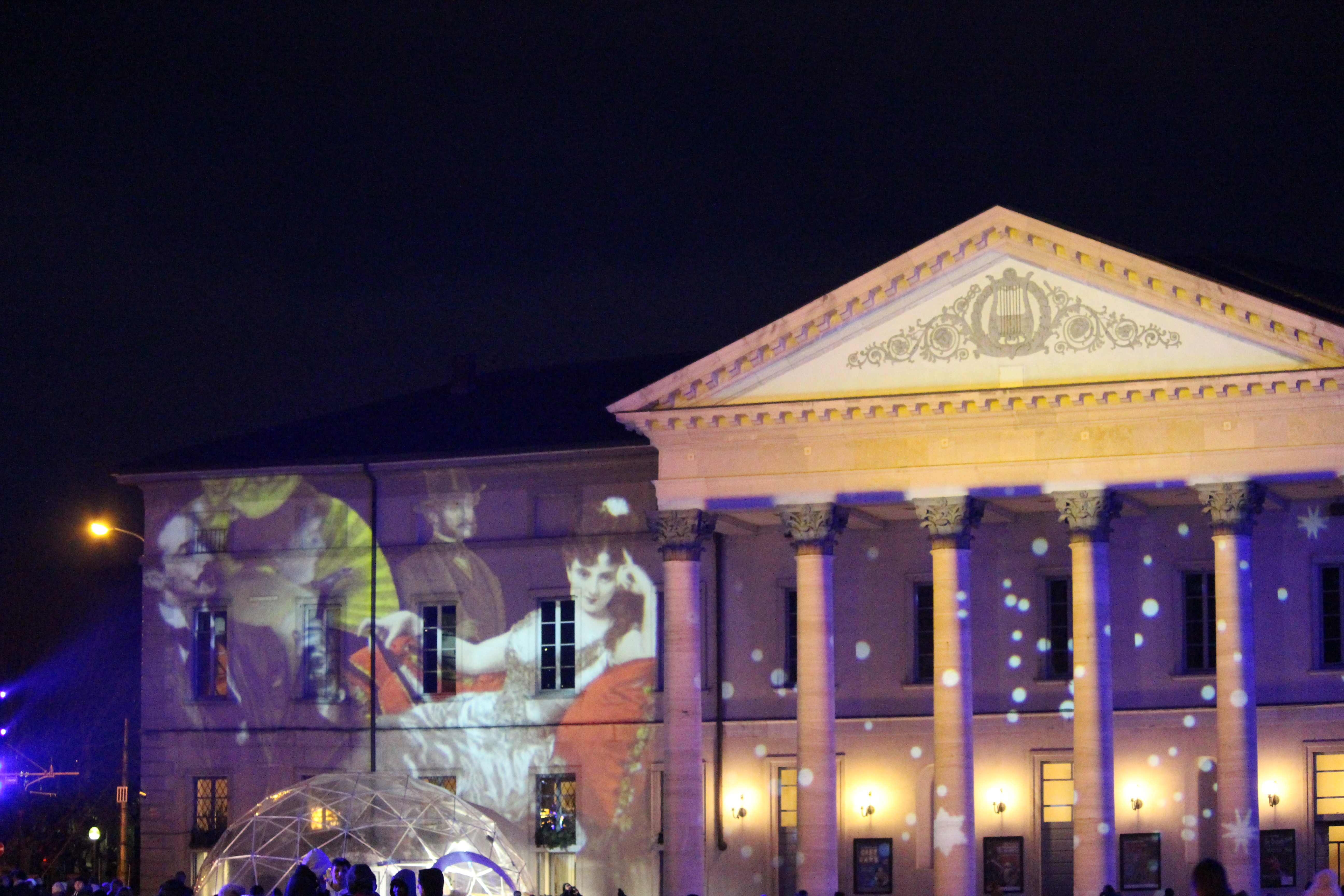 Como Light Show during December 2017